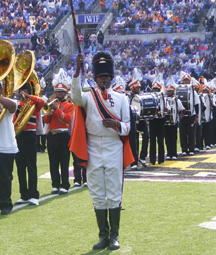 I created this image 11/10/07